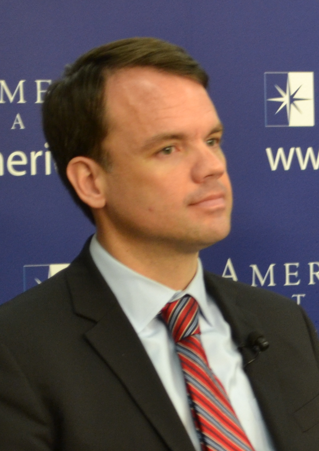 Micah Zenko, Benjamin Wittes, and Peter Bergen